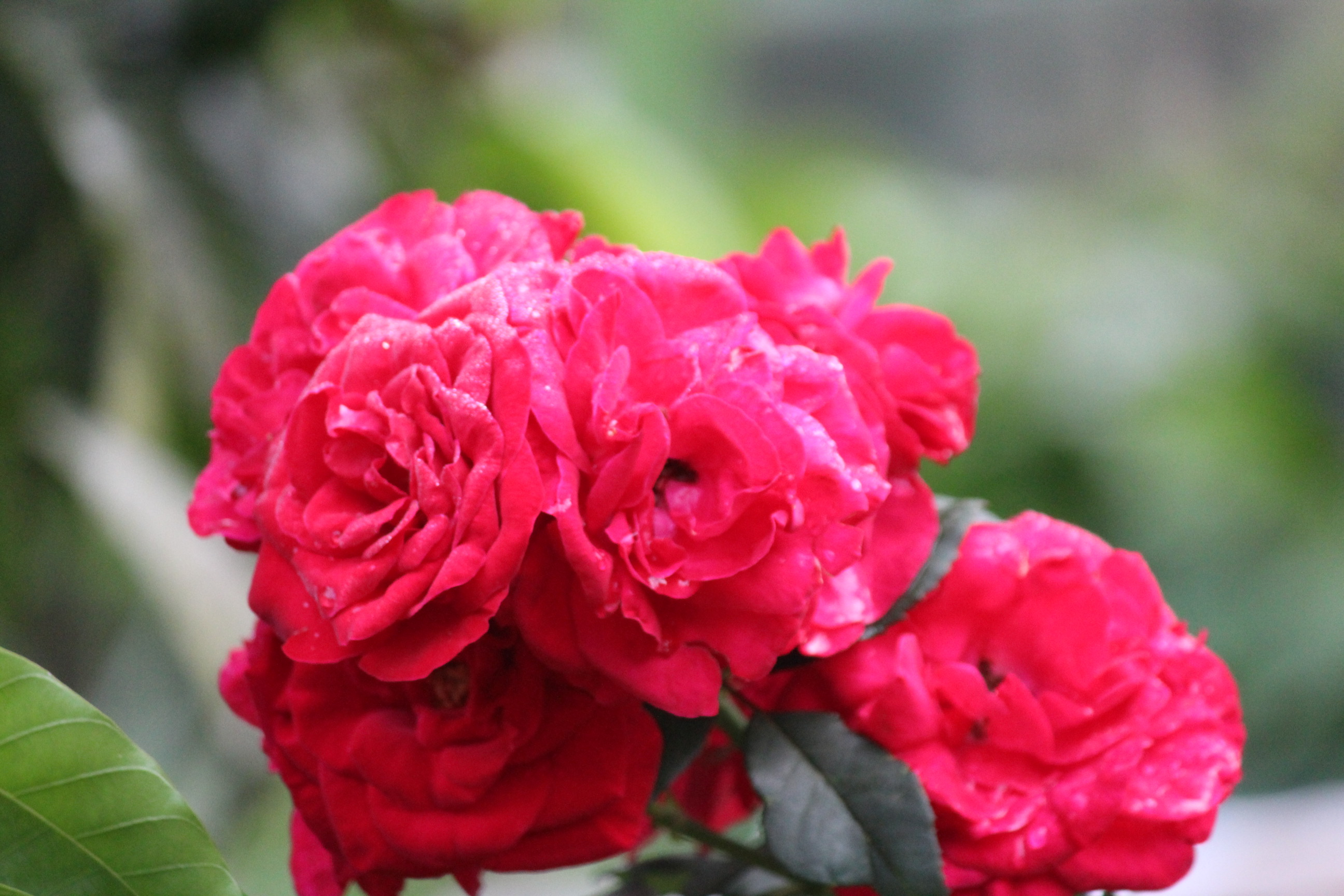 Bouquet of beautiful red roses